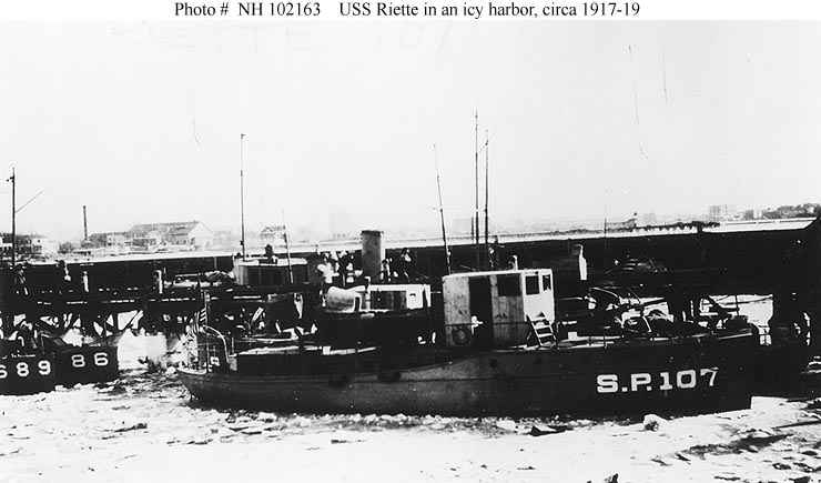 United States Navy patrol boat USS Riette (SP-107) in an icy harbor